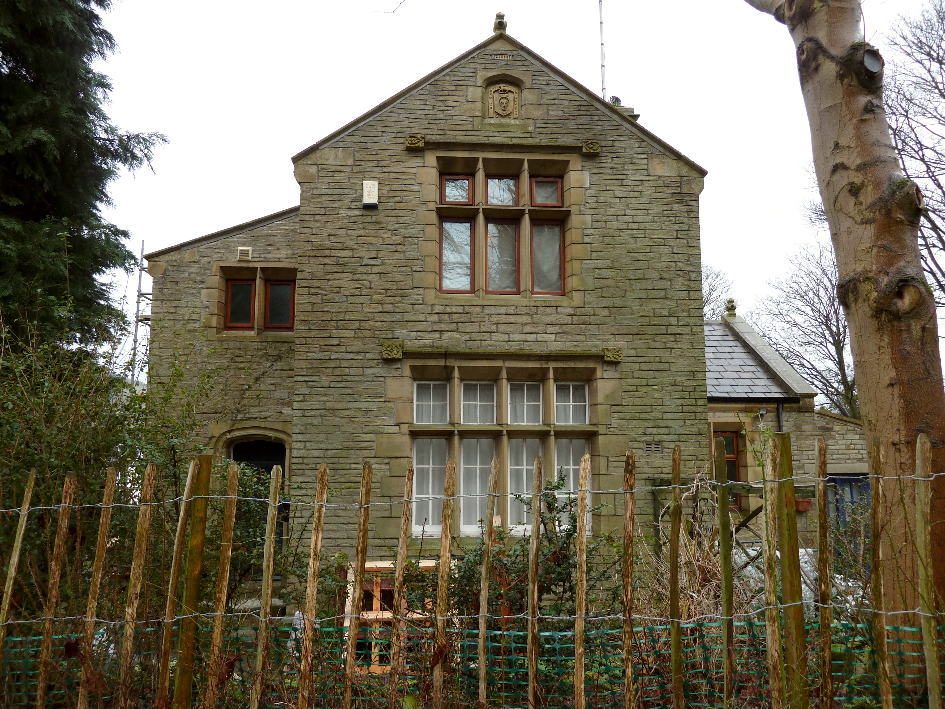 Lodge at entrance to Shroggs Park, Halifax, West Yorkshire, England. Designed in 1892 by William Swinden Barber. The date is carved on a brick on the back wall, under the gable. The Halifax coat of arms is carved on the front wall. As of February 2014 the building was under renovation.